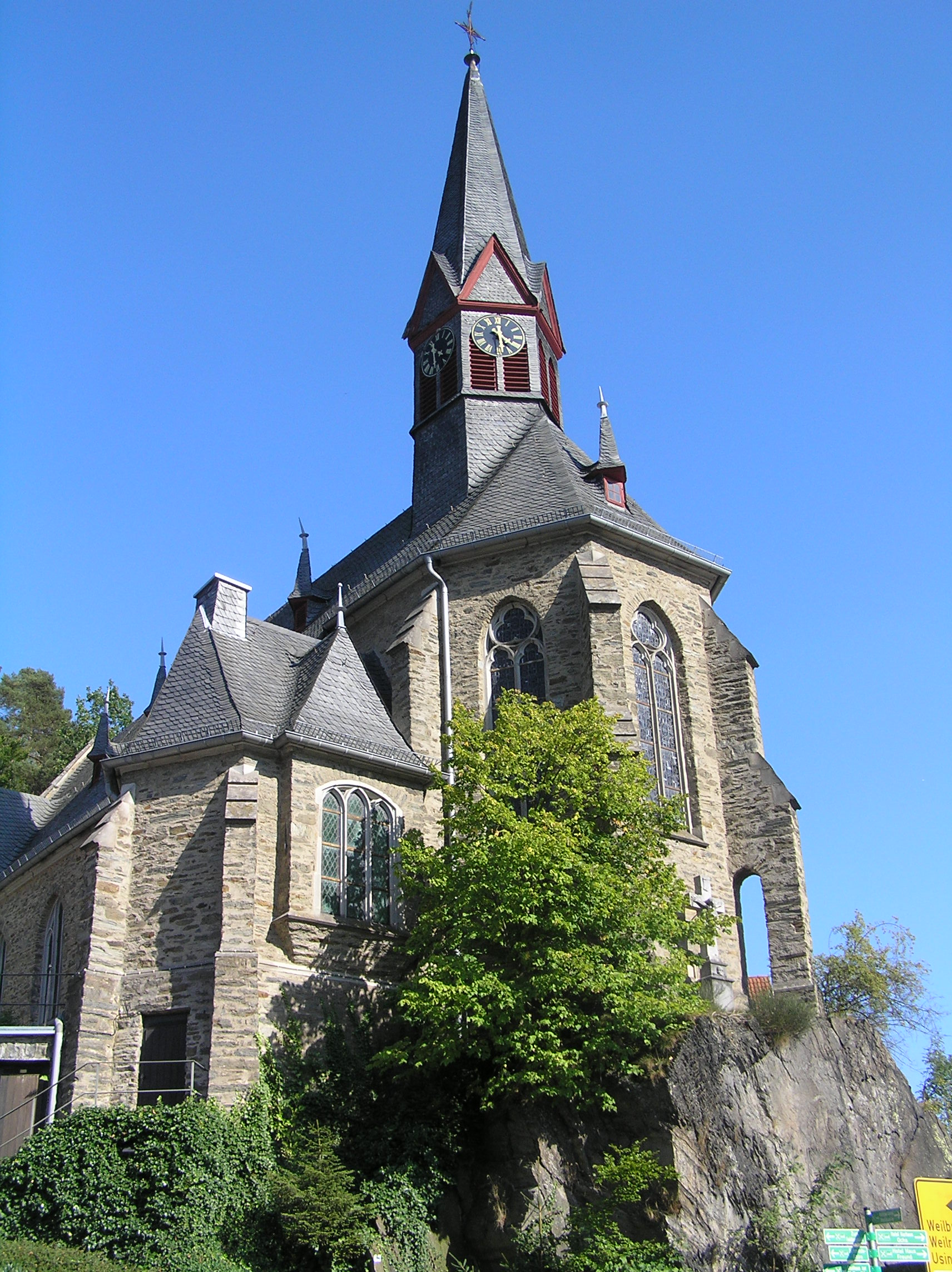 Schmitte, Germany, Church